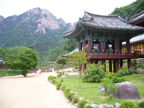 Sinheungsa Temple in Seorok National Park in Sokcho, South Korea